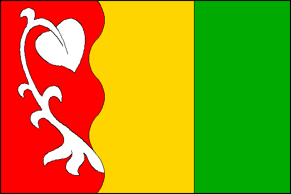 Municipal flag of Slatina nad Zdobnicí village, Rychnov nad Kněžnou District, Czech Republic.